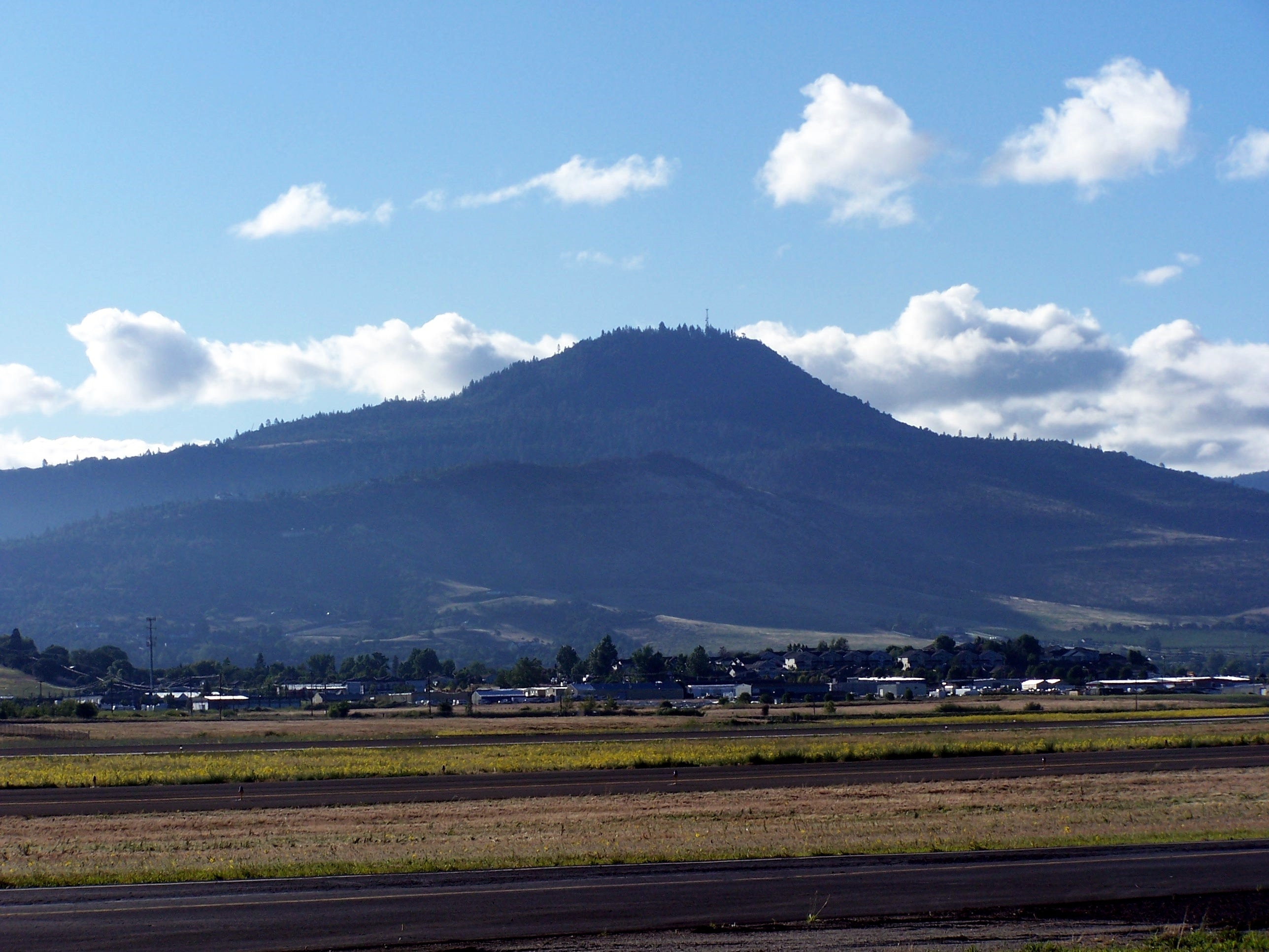 Roxy Ann Peak from the Rogue Valley International–Medford Airport.